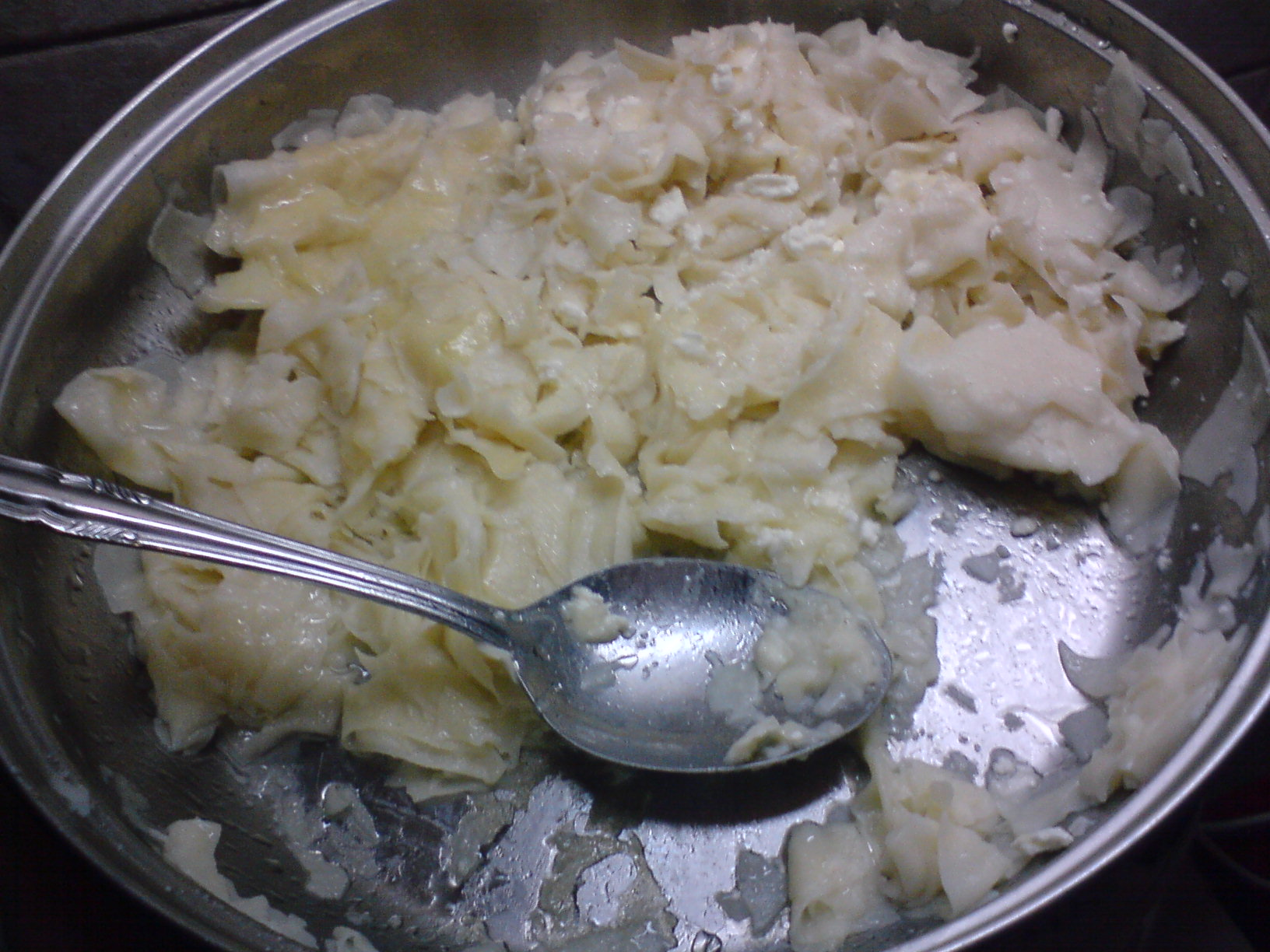 A photo of Macedonian yufki.